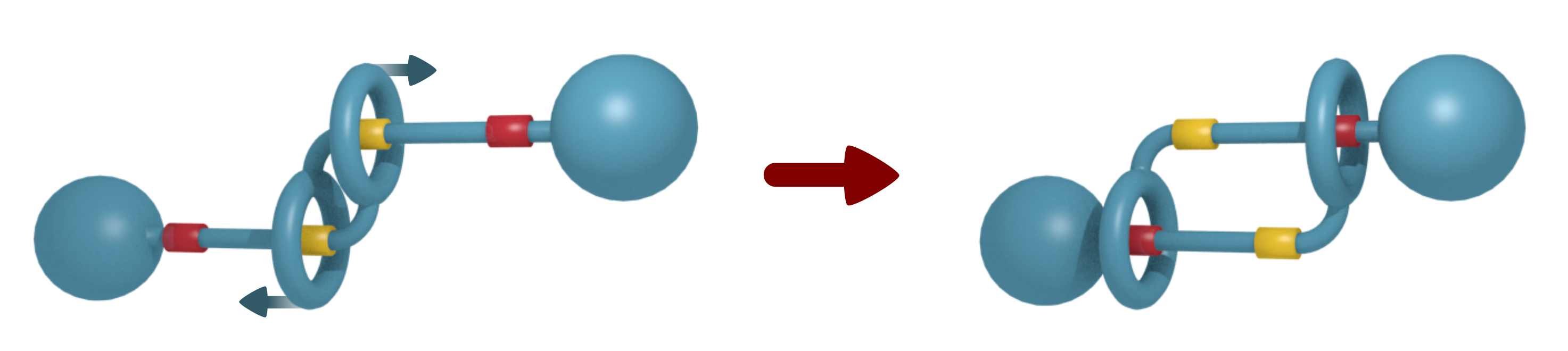 Daisy chain [2]rotaxane. These molecules are considered as building blocks for artificial muscle.